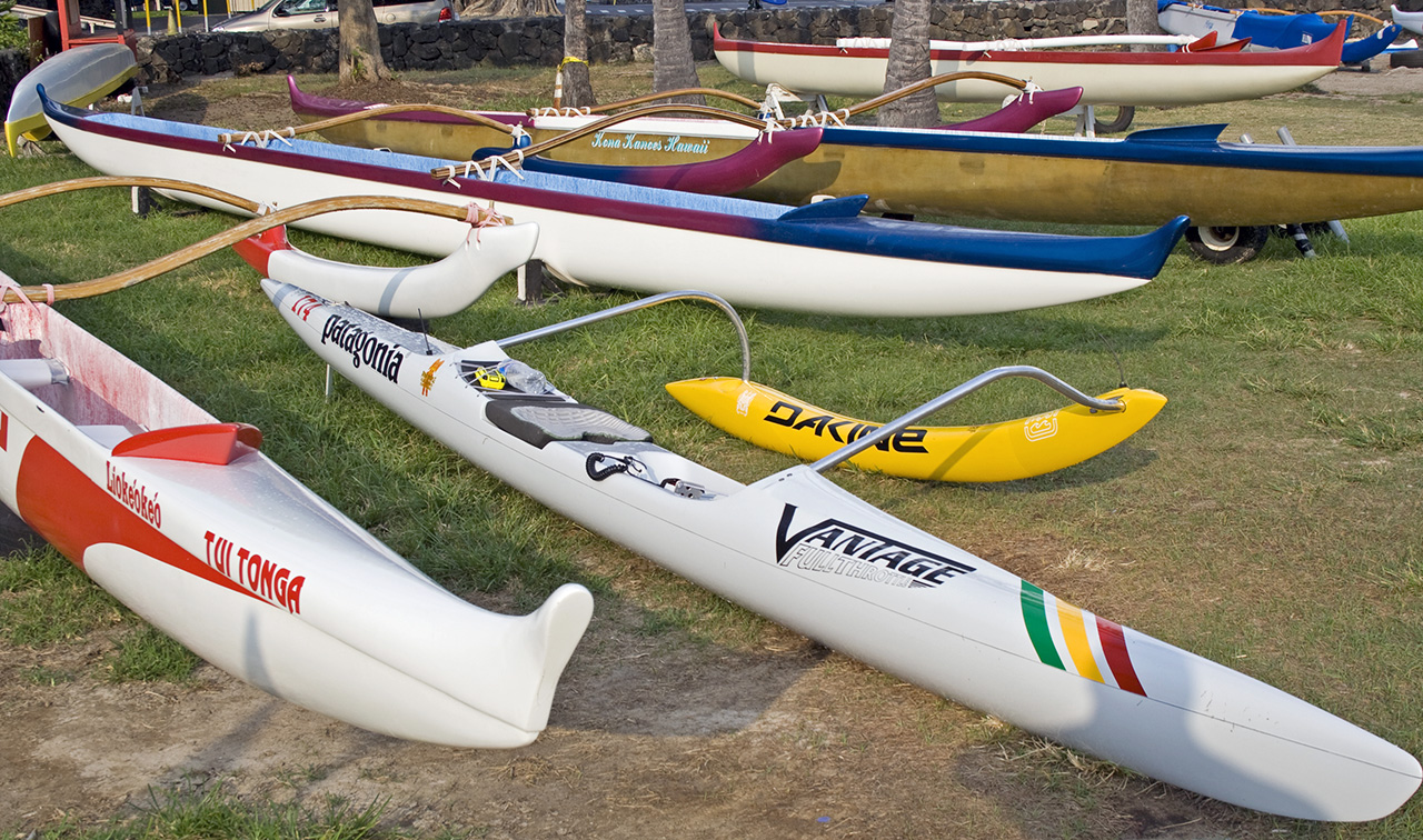 Picture of racing outrigger canoes.